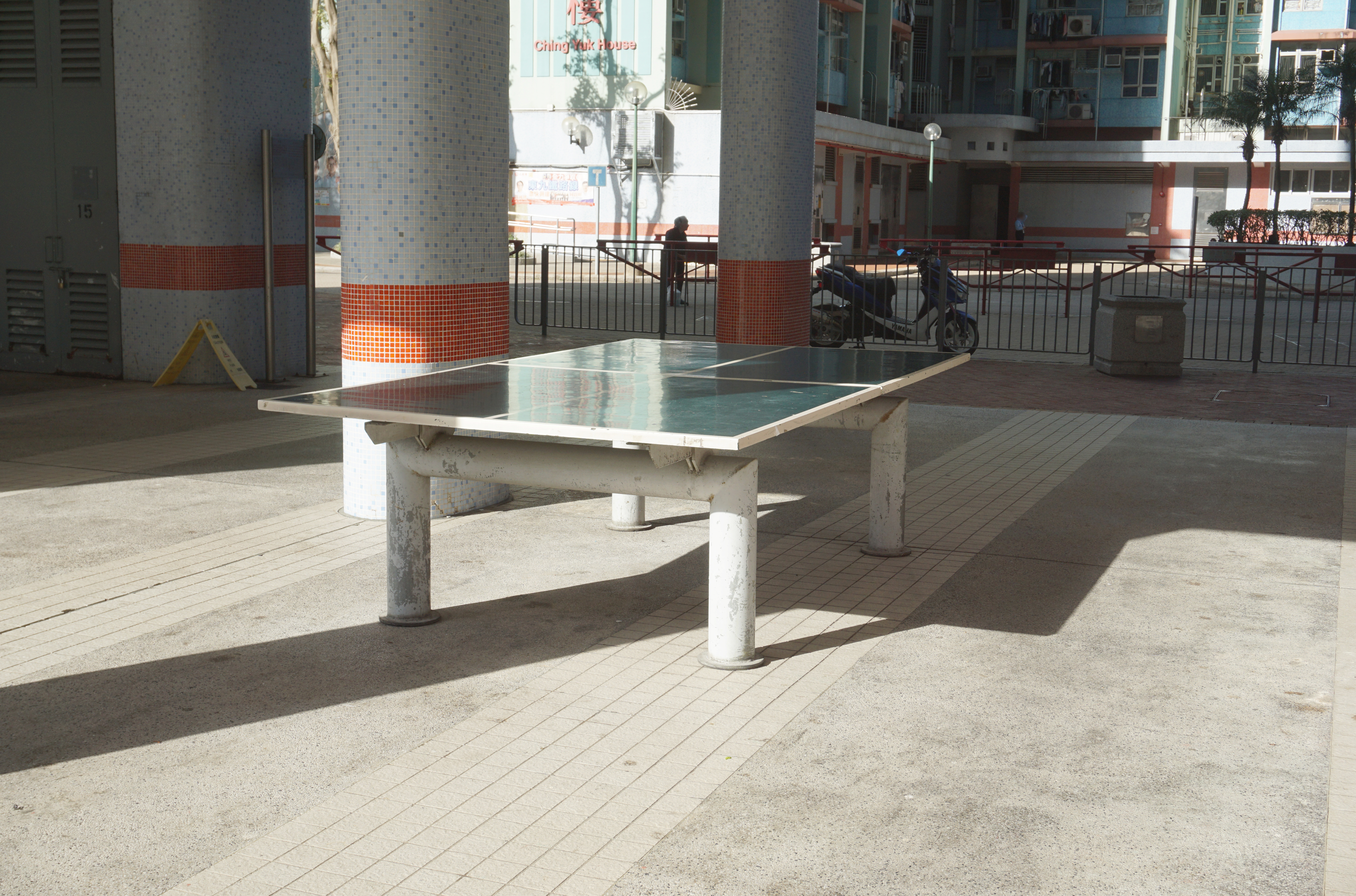 Tsz Ching Estate in Tsz Wan Shan, Hong Kong.